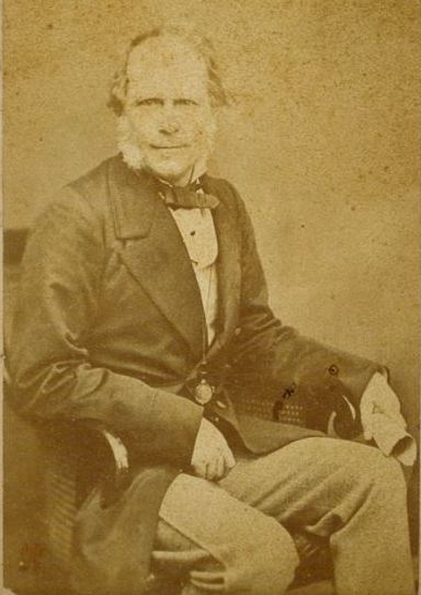 The last years Sir James Brooke, Rajah of Sarawak.